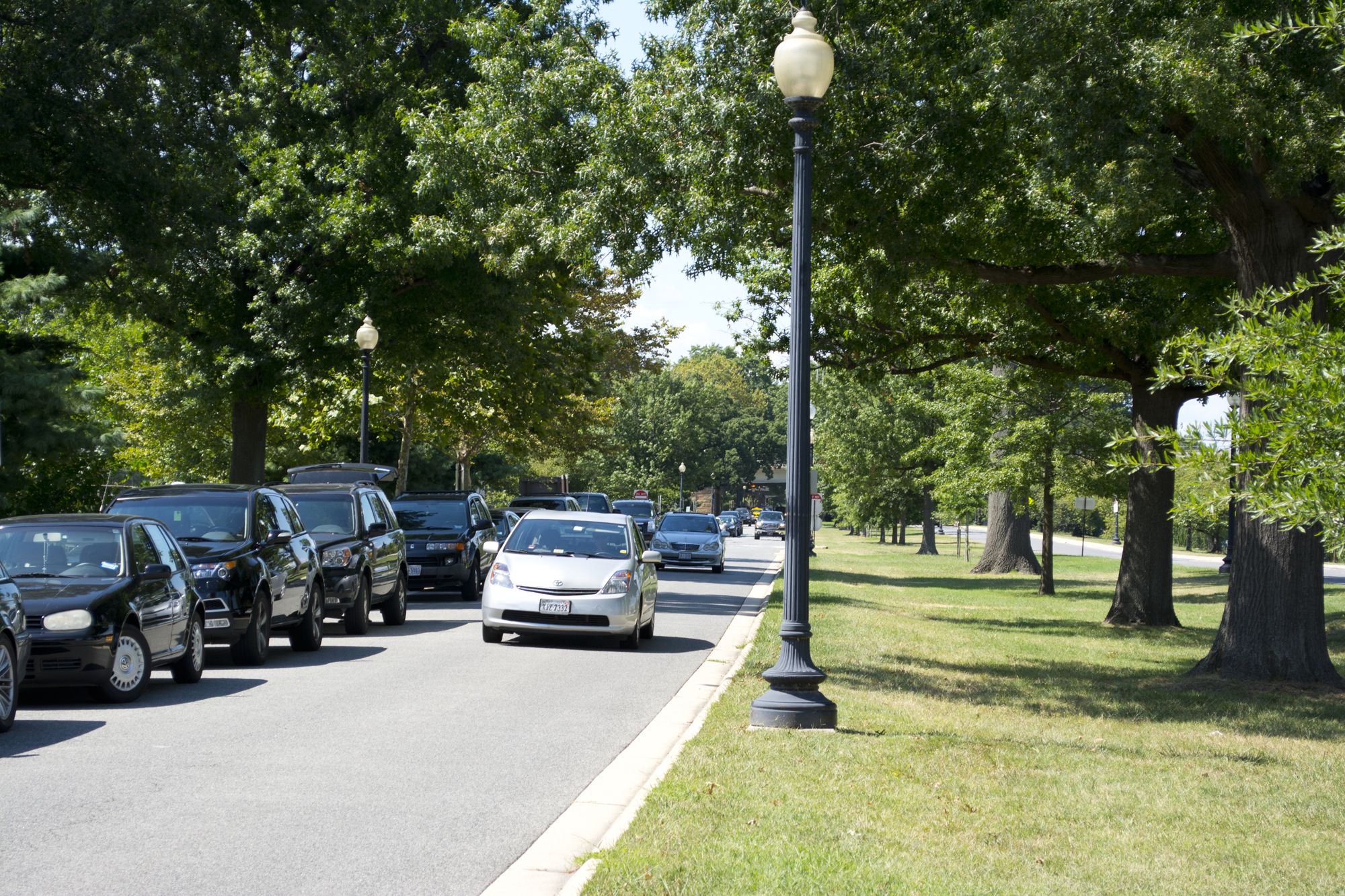 Looking north along the eastern leg of Ohio Drive SW in East Potomac Park in Washington, D.C., in the United States.